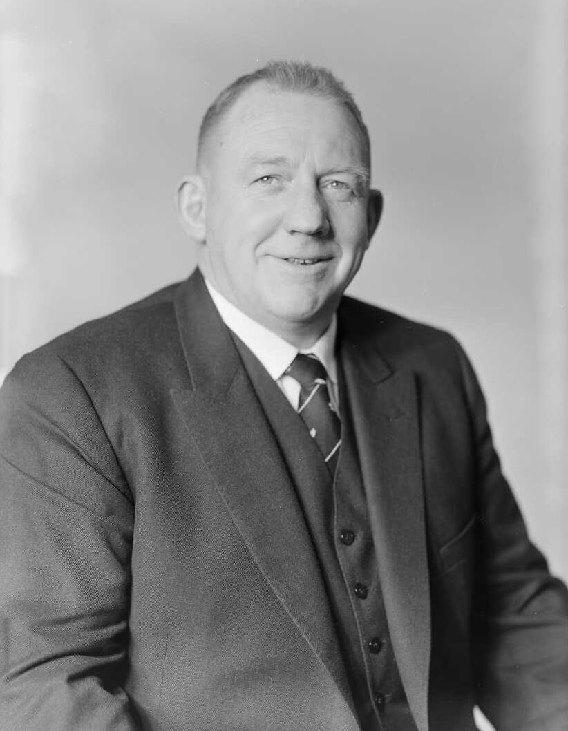 Photograph of rugby official Tom Pearce